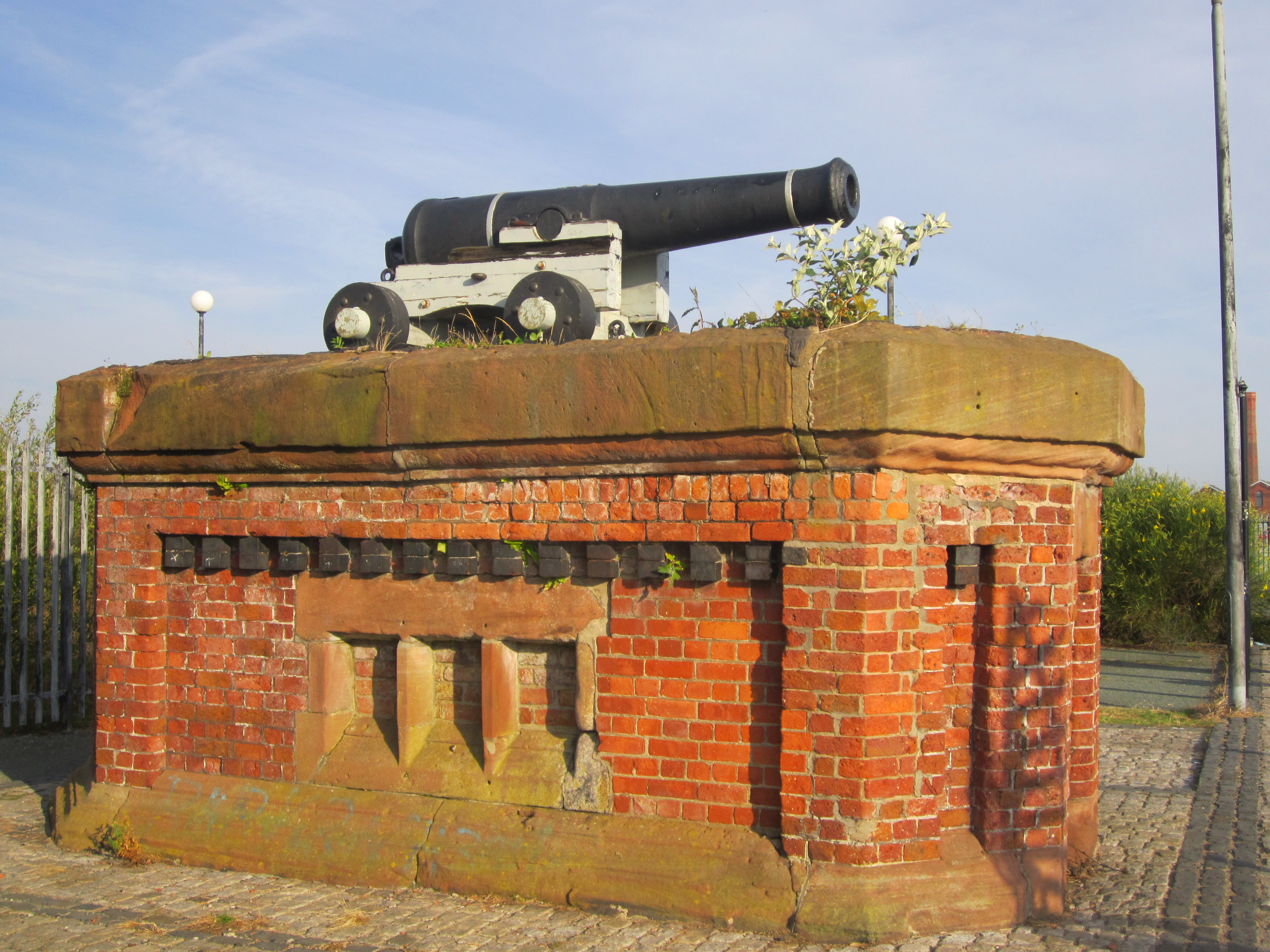 The One O'Clock Gun, Morpeth Dock, Birkenhead, Merseyside, England.